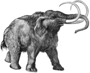 Mammoth image from US National Parks Servie - converted from .gif